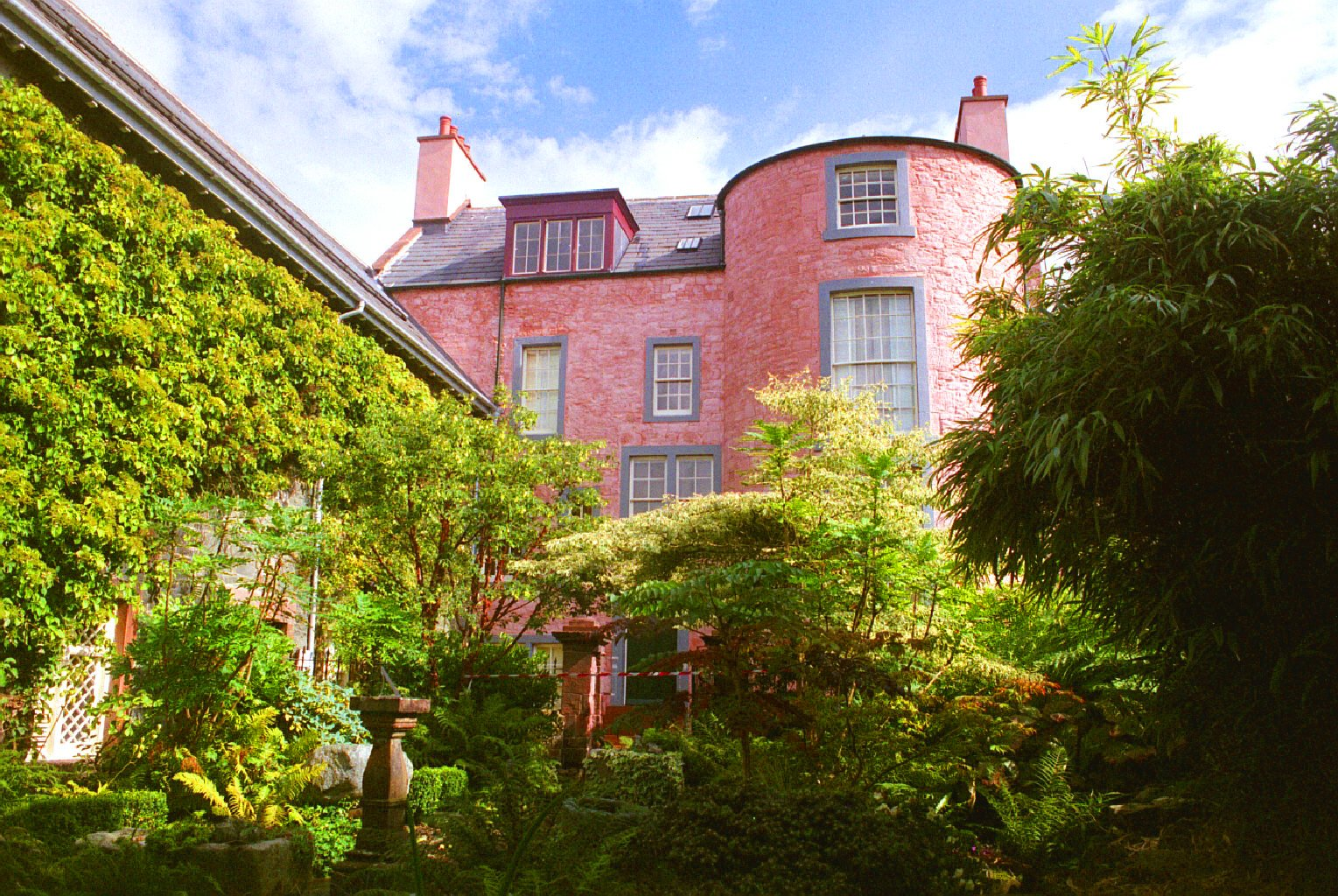 Broughton Houses